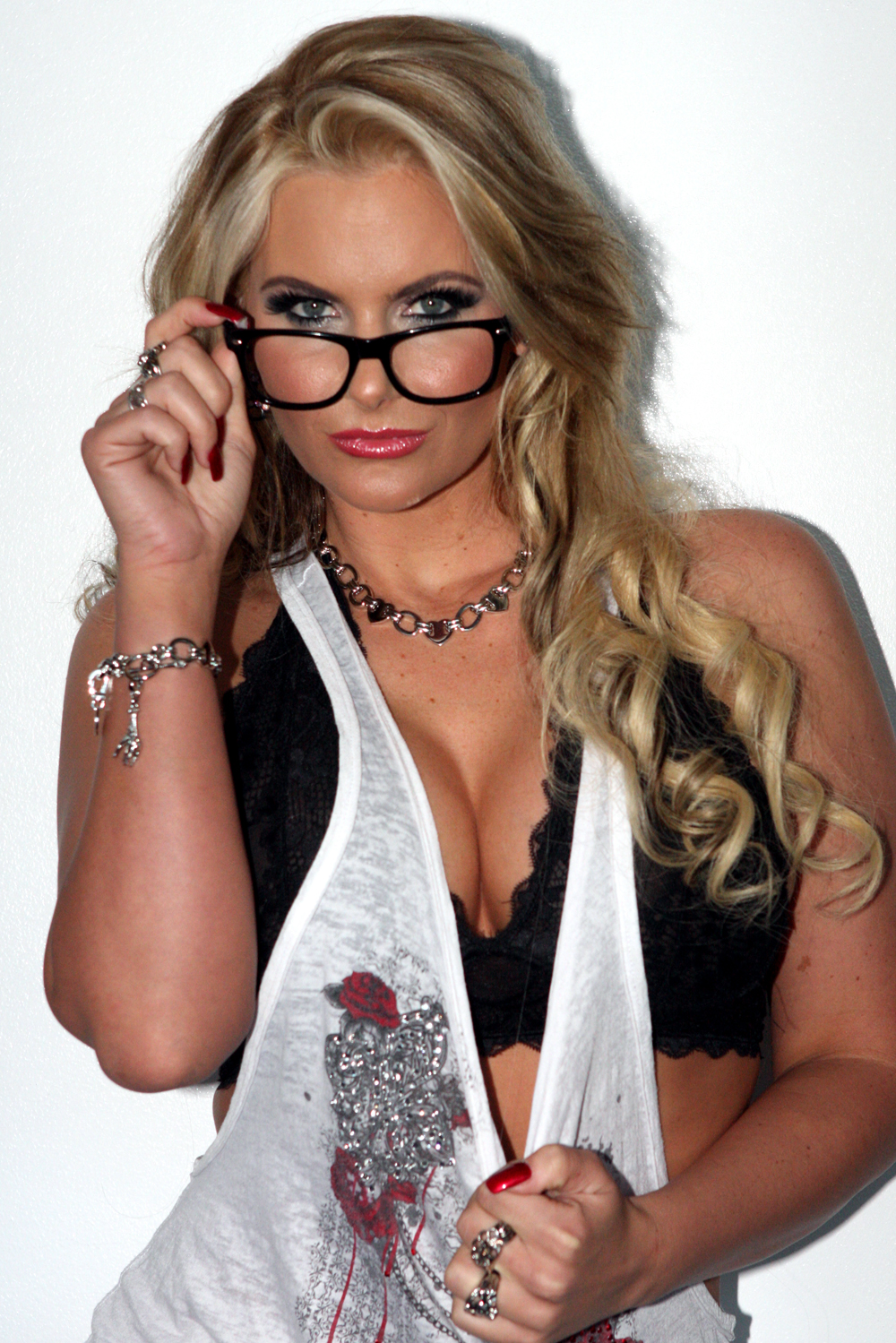 Phoenix Marie at the 2013 Sexpo in Sydney, Australia.